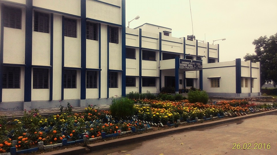 Government General Degree College, Kashmuli, Porolda, Dantan-II, Paschim Medinipur, West Bengal 721445.